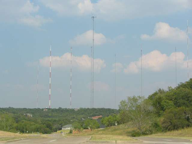 Picture facing east of grouping of Antennae in Cedar Hill, Texas taken by me on 2005-10-09.